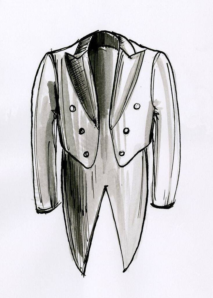 The description of the concept in this drawing is: Suit coats with a shaped upper body, with a waist seam, from which tails extend at the back. (AAT)